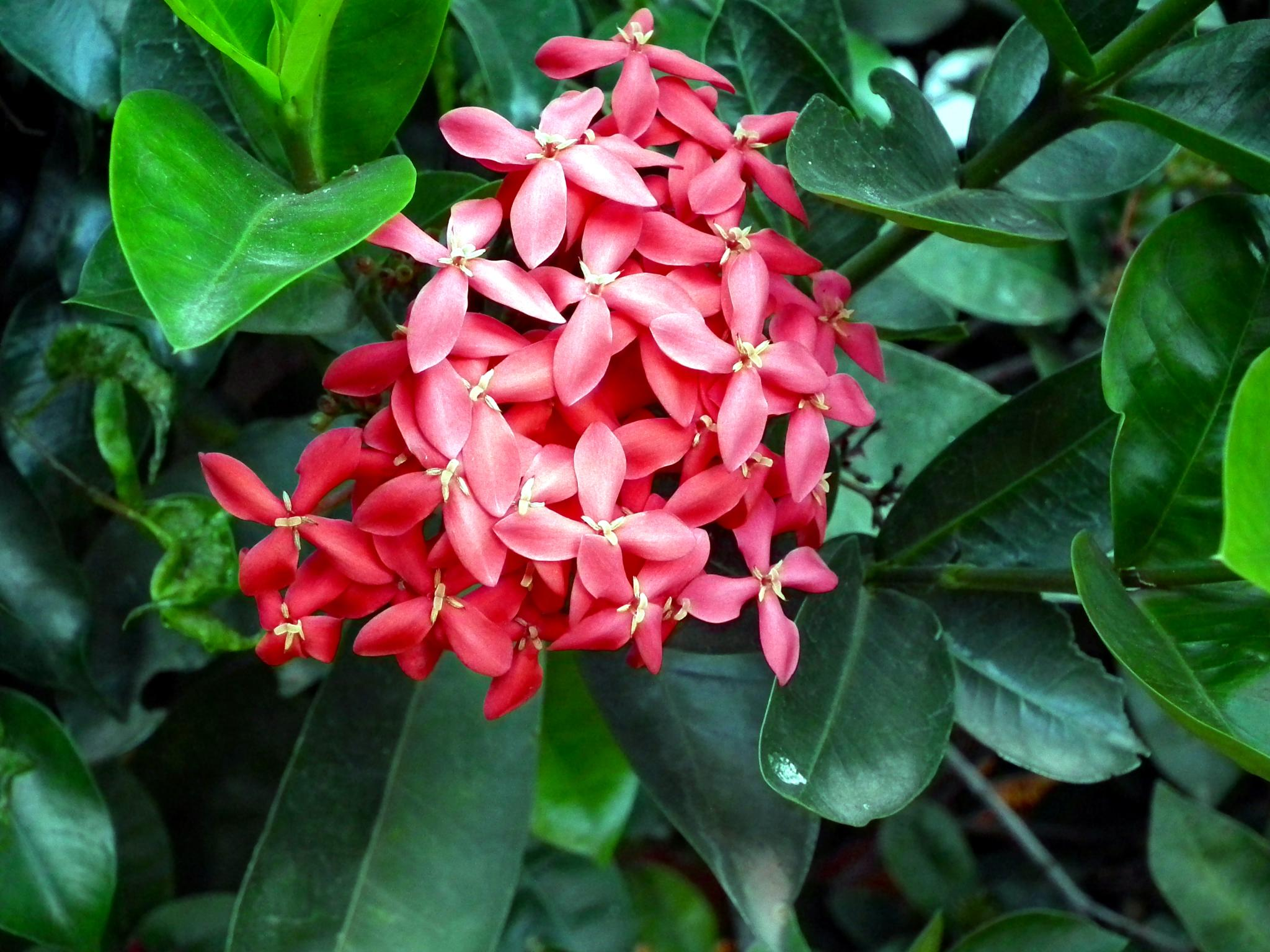 Ixora coccinea, known as the Jungle Geranium, Flame of the Woods, and Jungle Flame, is a common flowering shrub native to Asia. Its name derives from an Indian deity.